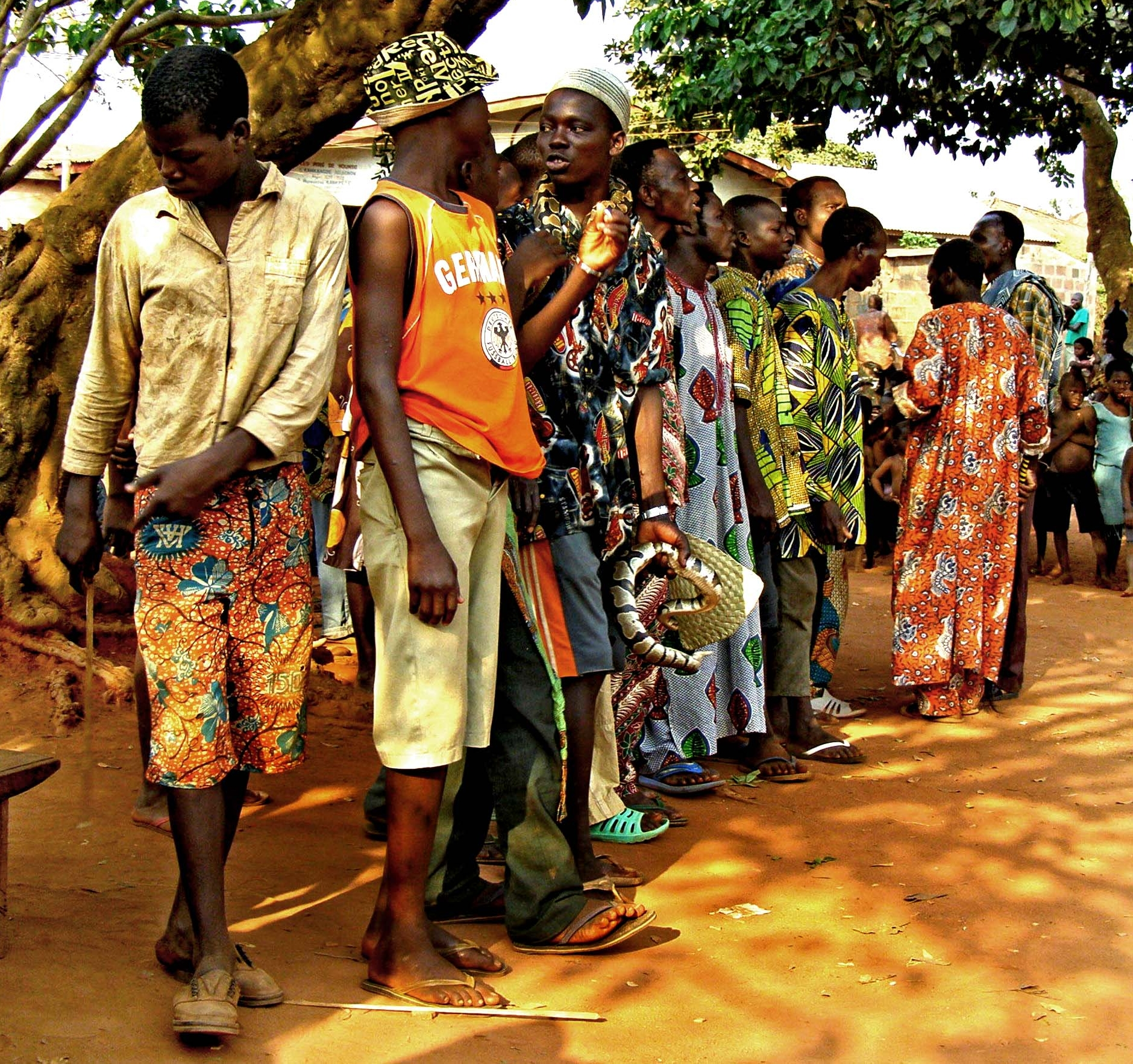 The Gelede Masked Festival of Cové, Benin